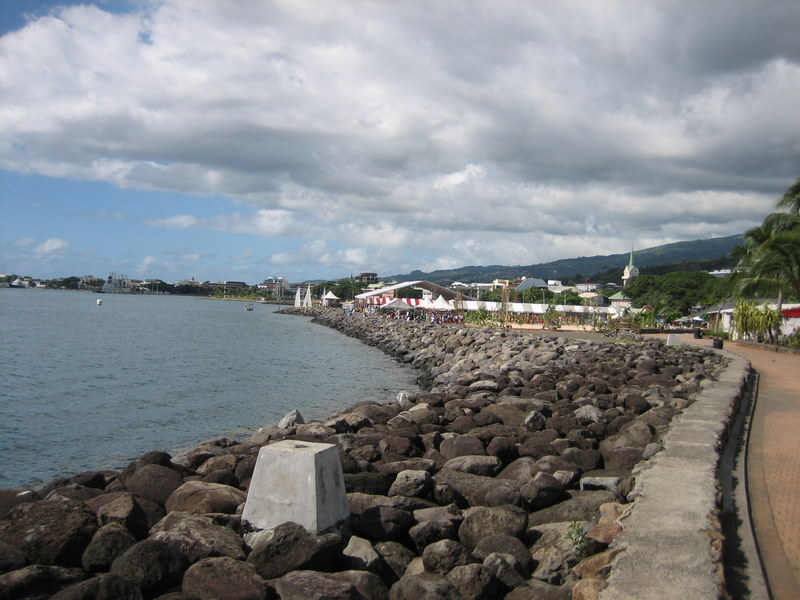 Photo taken by Ian Sewell, July, 2006. The harbour in Papeete, with the Sports Village of the Heiva festival in the background.